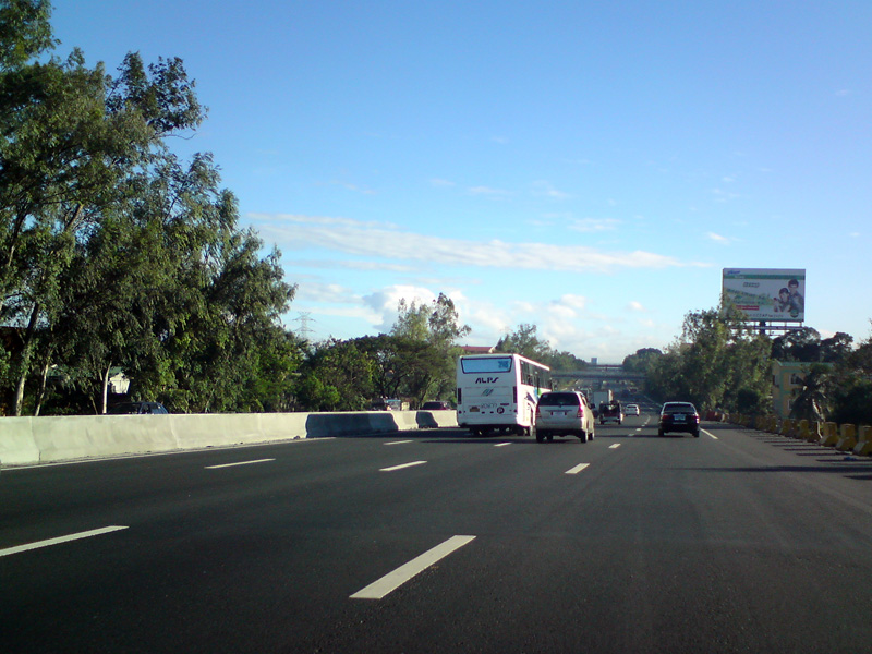 South Luzon Expressway Southbound lane from Susana Heights to San Pedro.